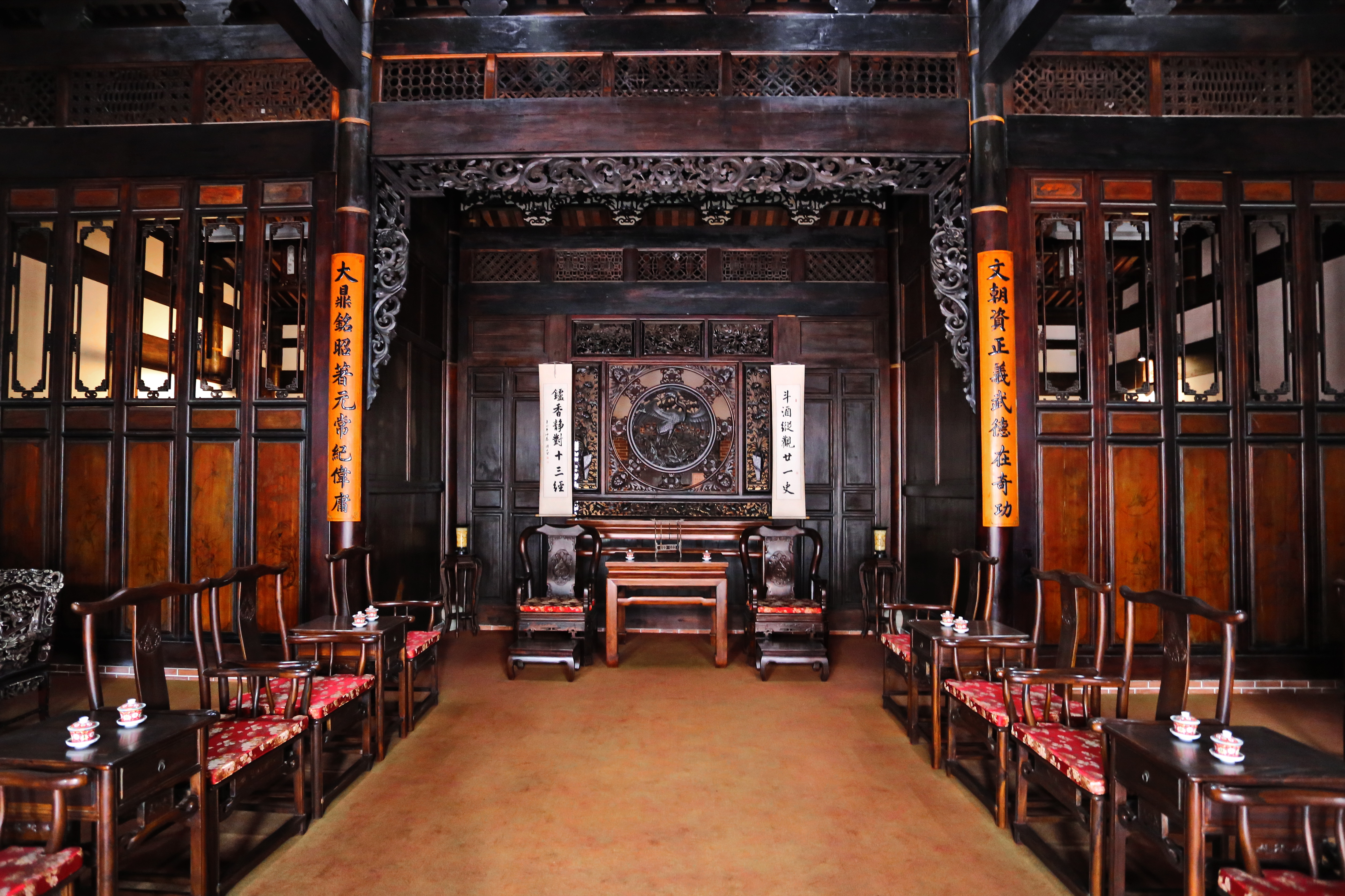 Wufeng Lin Family Mansion and Garden, Residence of the Palace Guard, The Formal Living Room of the Great Flower Hall, Wufeng District, Taichung City, Taiwan.